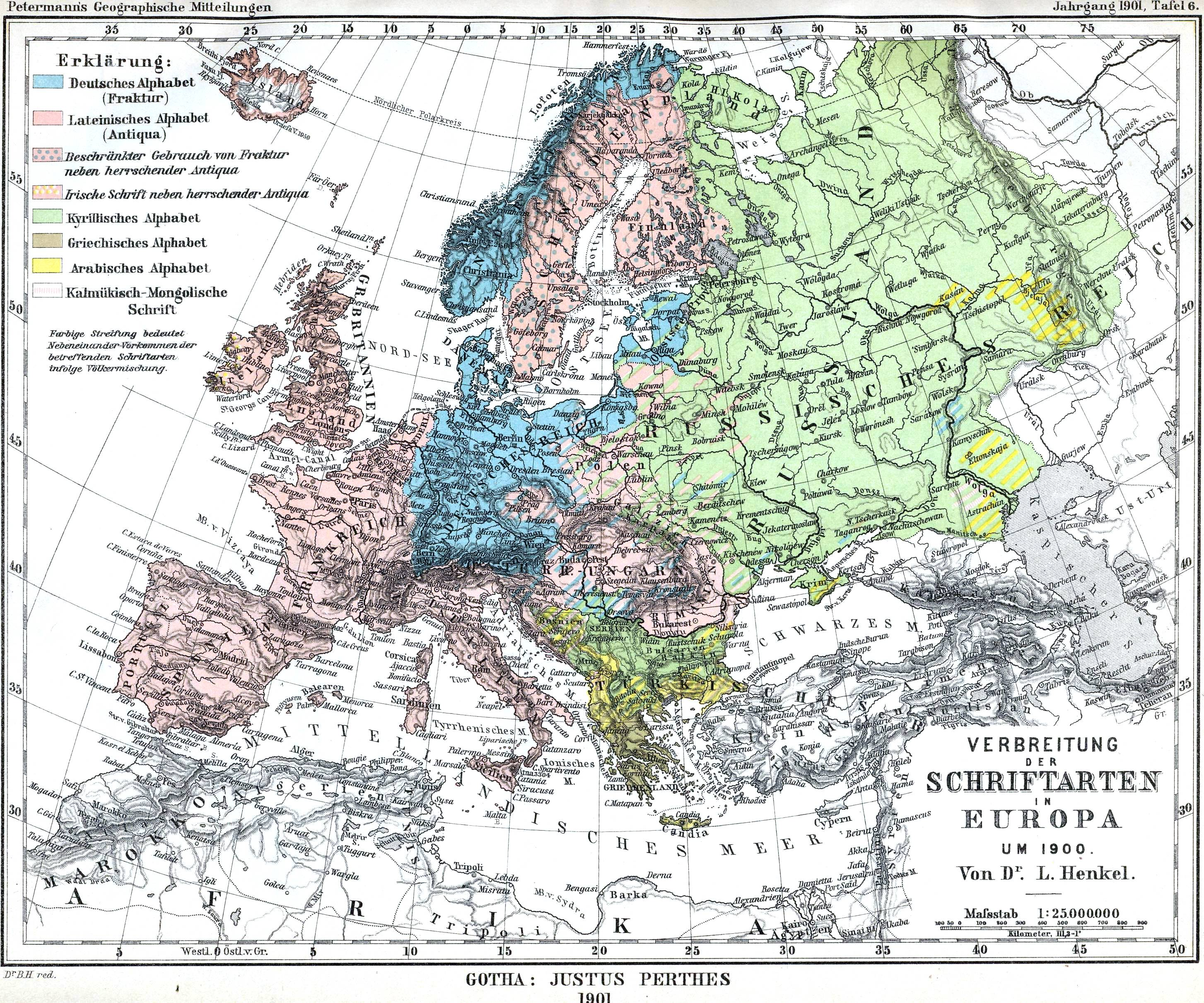 The spread of main scripts in Europe. However the information shown on this map did not depict an accurate portrait of Fraktur usage in Europe at the time. It was in fact far less used than shown, as both Denmark and Norway had switched to using antiqua in a majority of publications, and in Germany itself Fraktur was not an exclusive script (as for example can be seen from the map legend), antiqua was also used in that country. In Finland, antiqua was used for Swedish language, but Finnish-language publications were still Fraktur-majority in 1901.